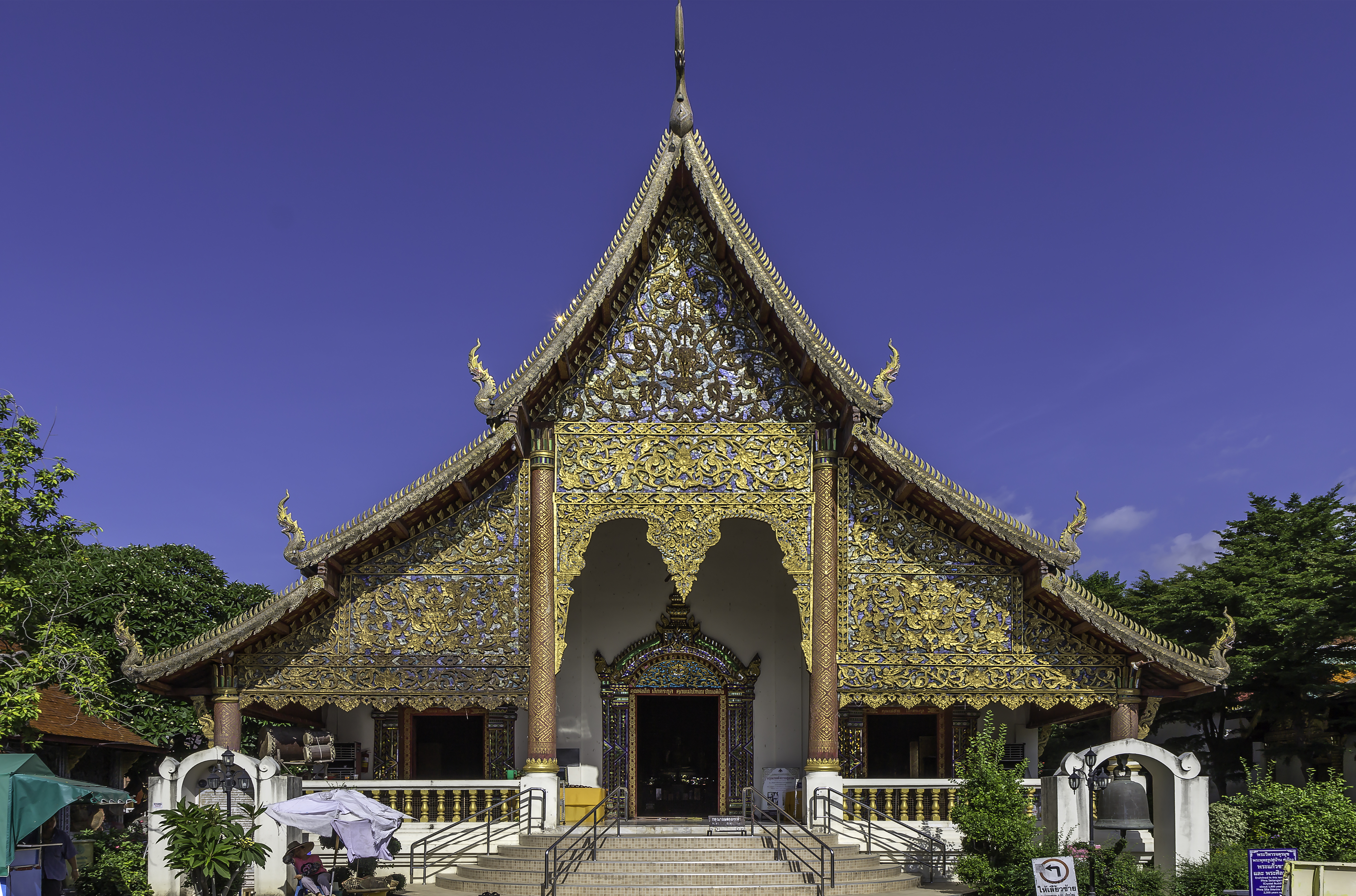 Wat Chiang Man, Chiang Mai, Thailand